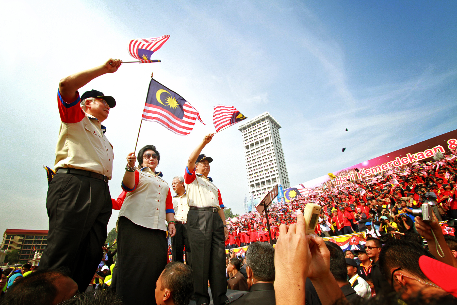 Najib Razak and his wife Rosmah, with the deputy prime minister Muhyiddin (from left to right) waving flags during Malaysia day celebration at Merdeka Square, Kuala Lumpur.